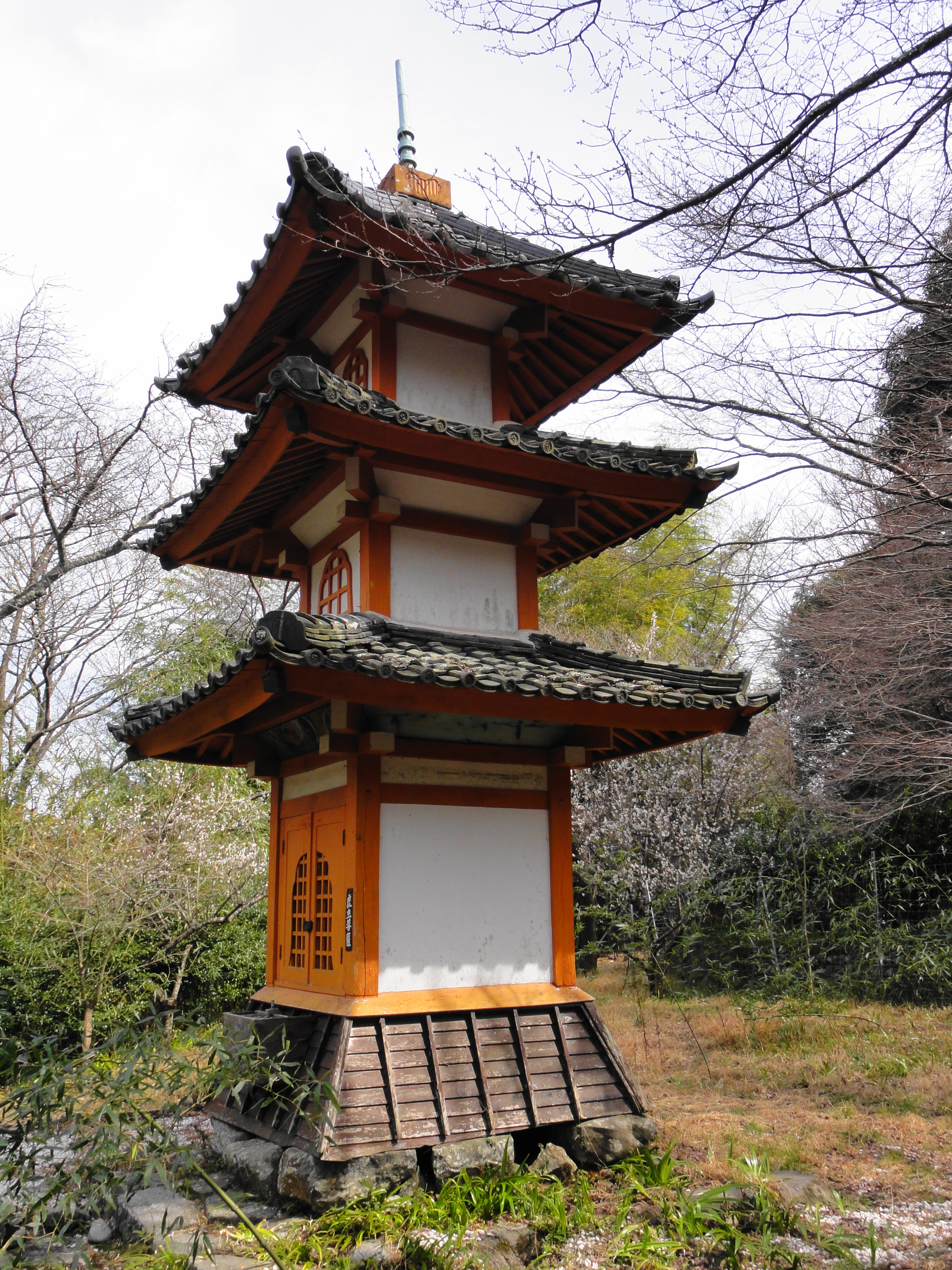 Zuiganji Three-storied Pagoda,Mie prefecture,Japan